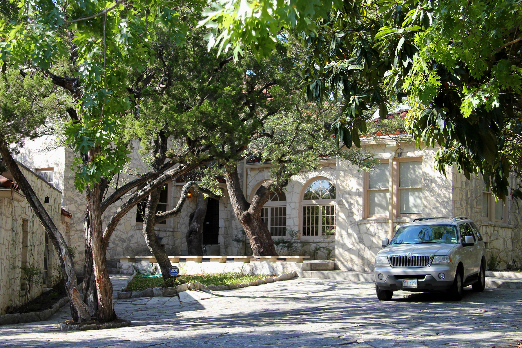 The Louis and Mathilde Reuter House located at 806 Rosedale Terrace, Austin, Texas, United States. The house was designated a Recorded Texas Historic Landmark in 1986 and listed on the National Register of Historic Places on December 7, 1987.